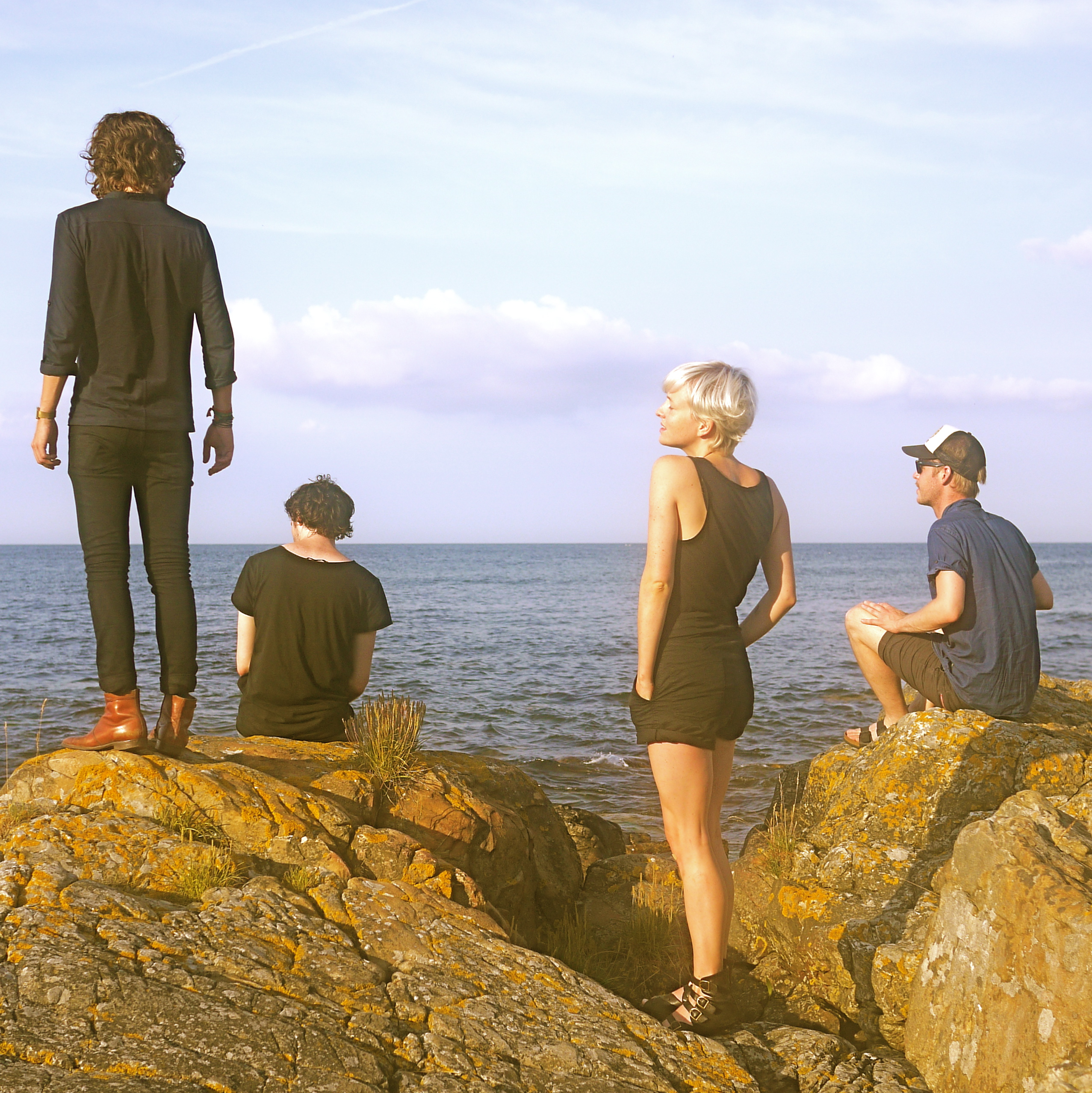 Gaby and the Guns